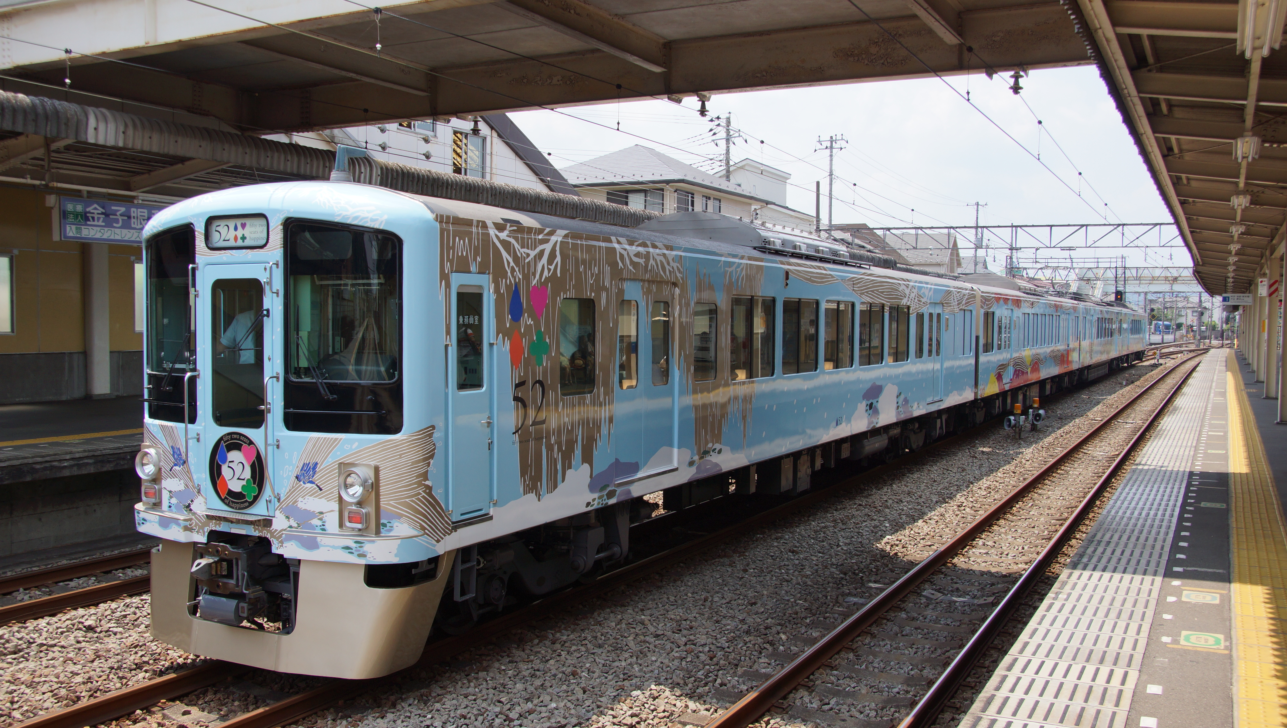 The Seibu 4000 series Fifty-two Seats of Happiness dining train set 4009 waiting in the centre track at Bushi Station on a service from Ikebukuro to Seibu Chichibu